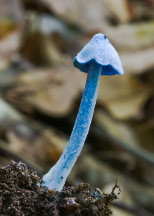 Entoloma hochstetteri Location: Swans Crossing State Forest, New South Wales, Australia Notes: This fungi was photographed at Swans Crossing Forestry reserve. The fungi stands about 70mm in height and is a mature specimen. Aging causes loss of blue colour saturation, and dark spots appear around the edges of the cap and outermost gills. I have not been able to find a record of ths fungi in my Australian references, but Clive shirley has a specimen on his excellent website. It appears to be free from insect attack as far as I have noticed.I have photographed several of these over a period of time, and have noticed that the stem has slowly rotating grooves extending up from the base to the top of the stipe where it meets the cap. I will go through my records for previous images and post them when I locate an image that is worth showing. Clive also agrees with me about the loss of saturation in the fungi with age. I have only found this fungi in single appearances, where Clive has seen them in groups. This may be native to Australia.